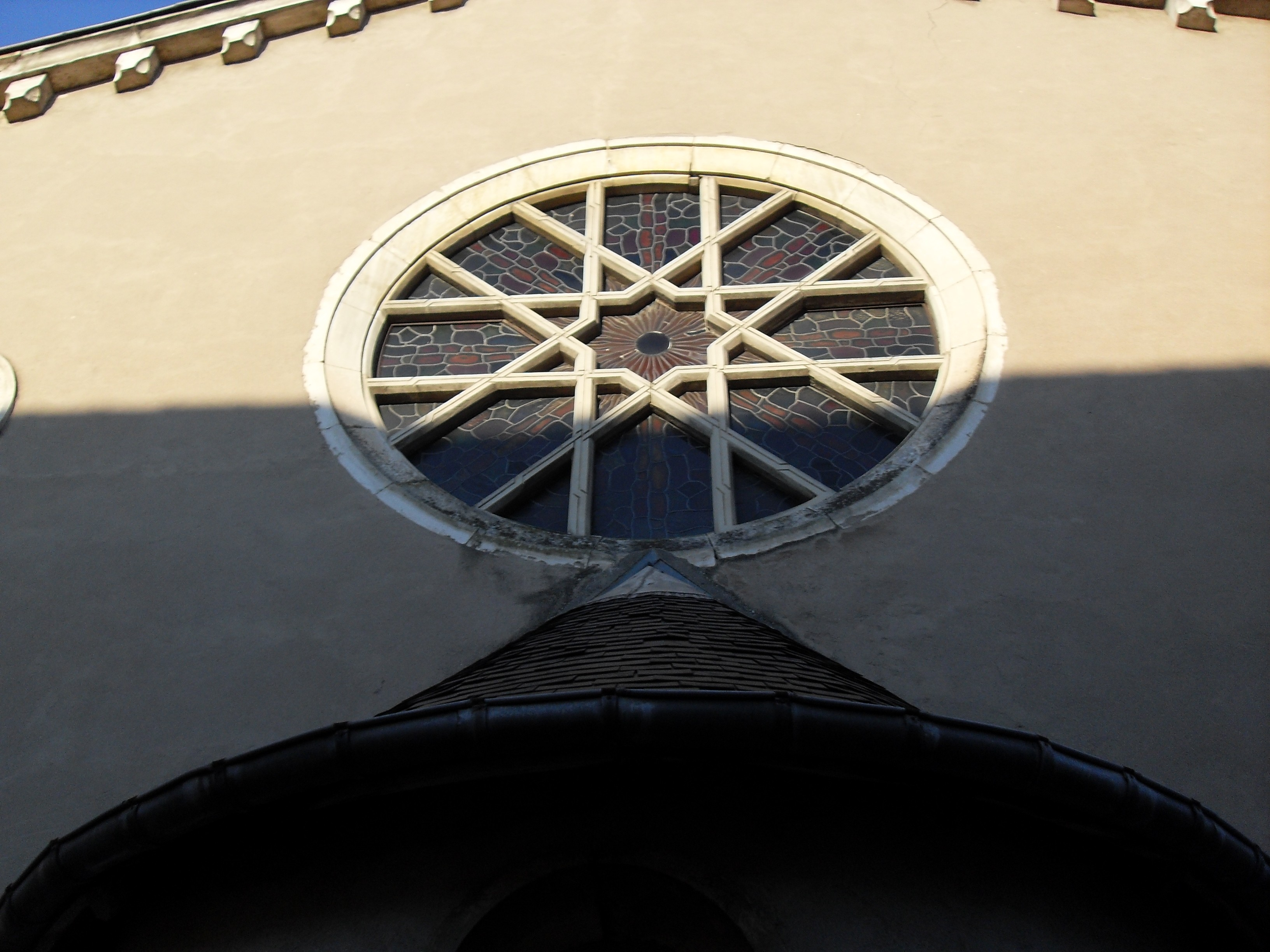 Toul Synagogue 19th century - Rose window above the Torah Ark.